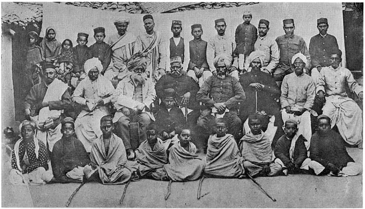 "A meeting of the Arya Samāj for investing boys with the sacred thread" from R. V. Russell's 1916 "The Tribes and Castes of the Central Provinces of India--Volume I".